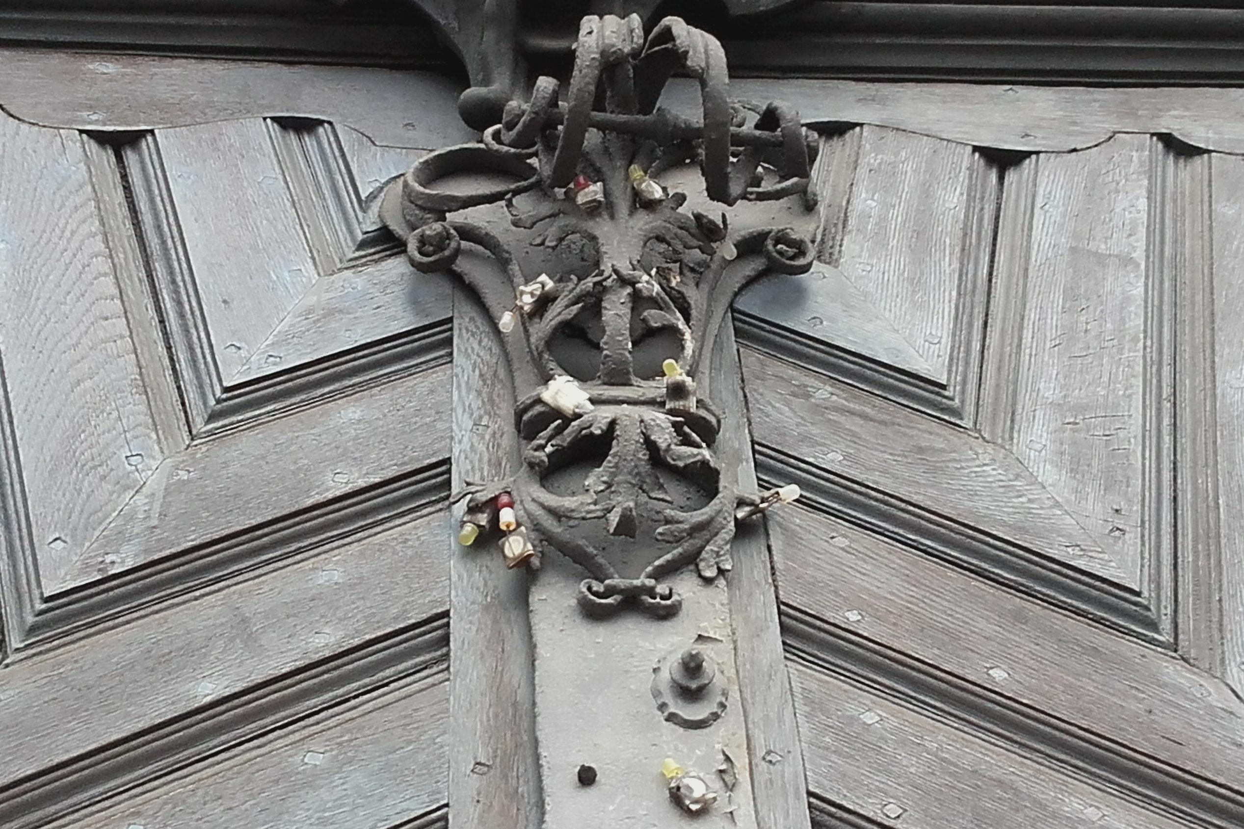 old LED-Throwies